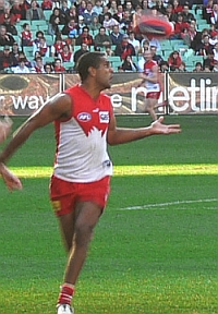 Michael O'Loughlin of the Sydney Swans